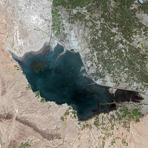 Manchar by SPOT Satellite